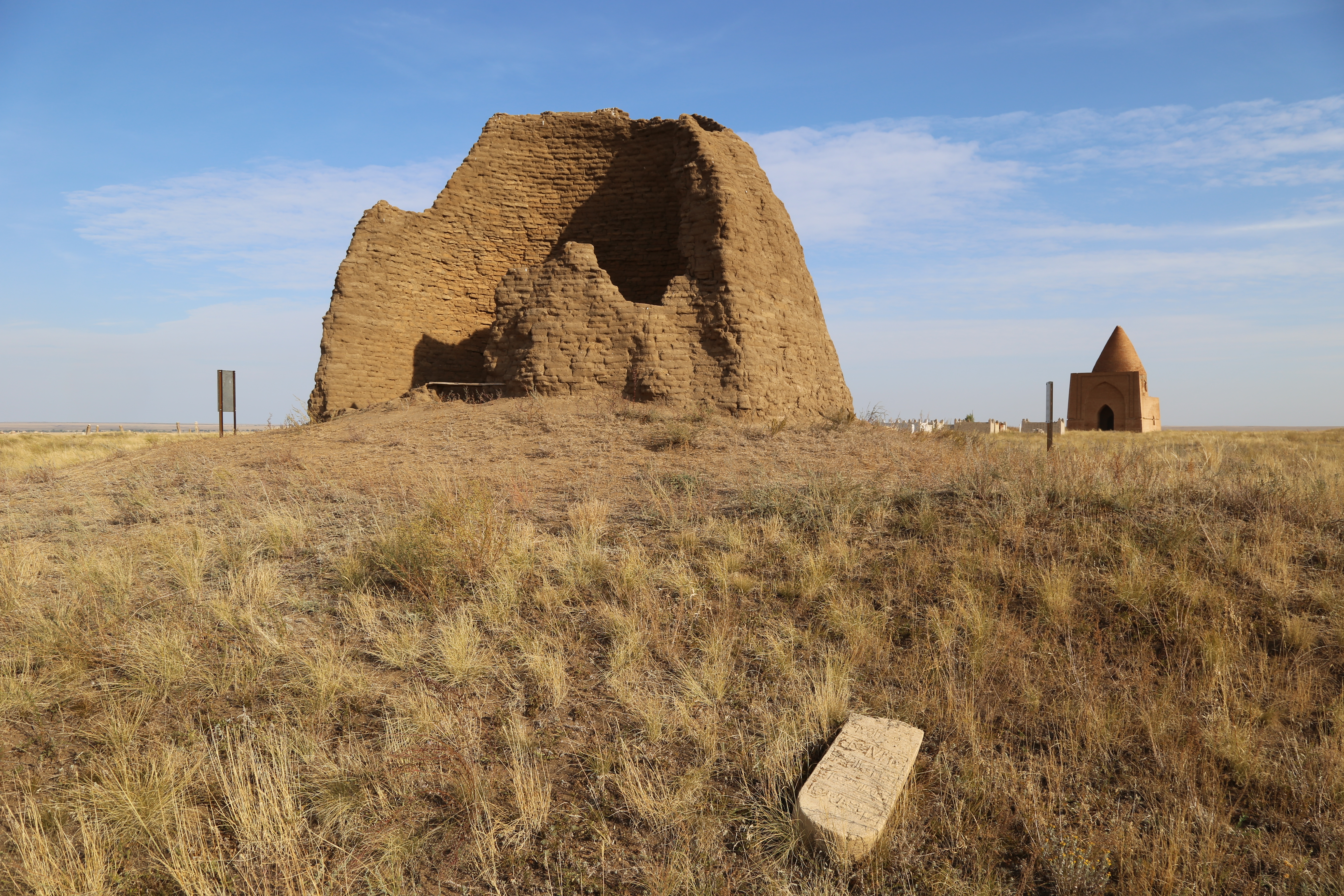 Abat-Baitak